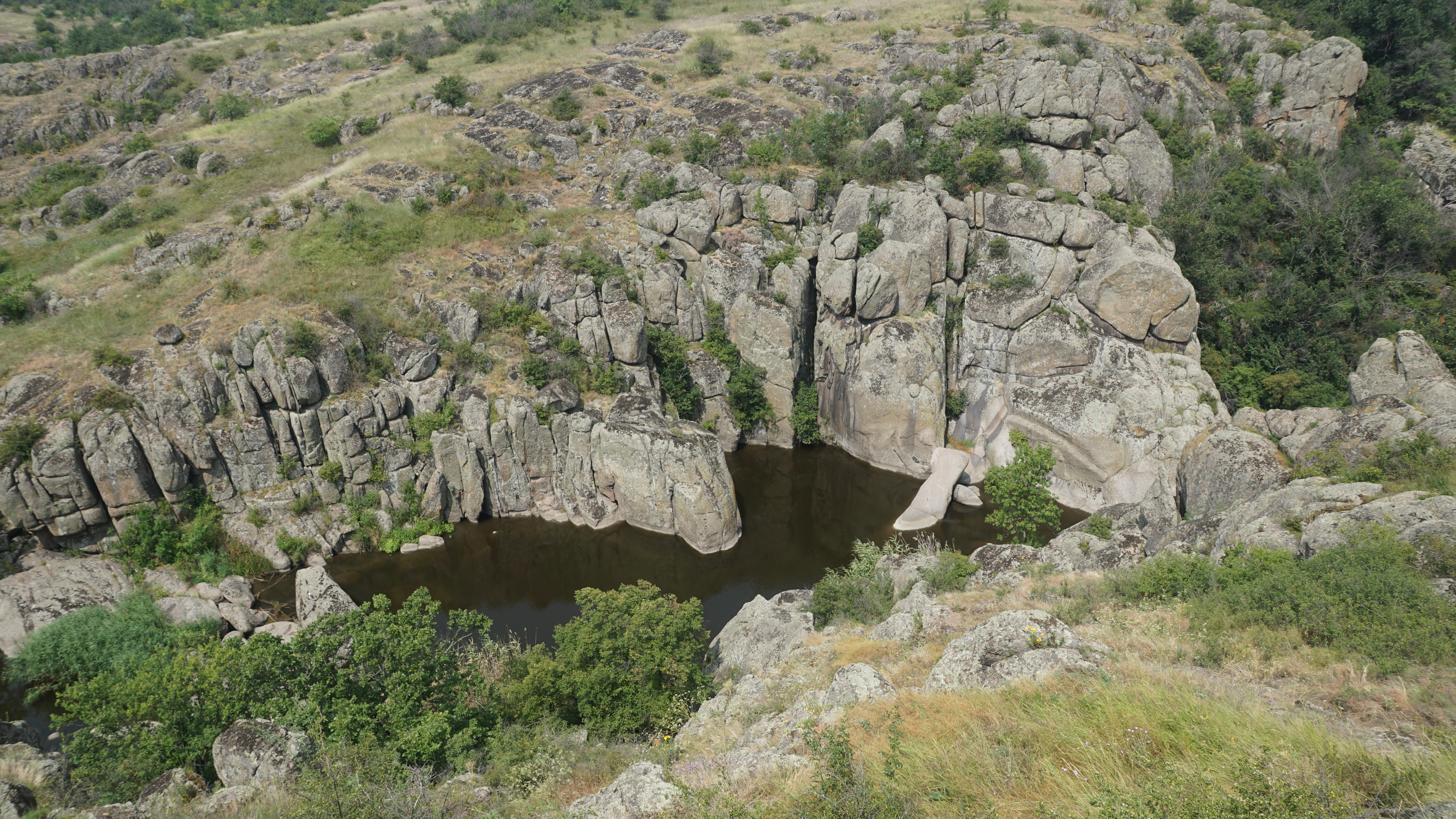 Buzkiy Gard National Nature Park («Бузький Гард»), Aktove Сanyon on Mertvovid (Мертвовід) river near Aktove (Актове)